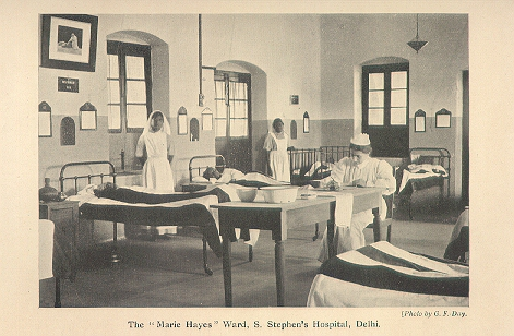 An image of a hospital ward in St. Stephen's hospital in Delhi, India around 1909.